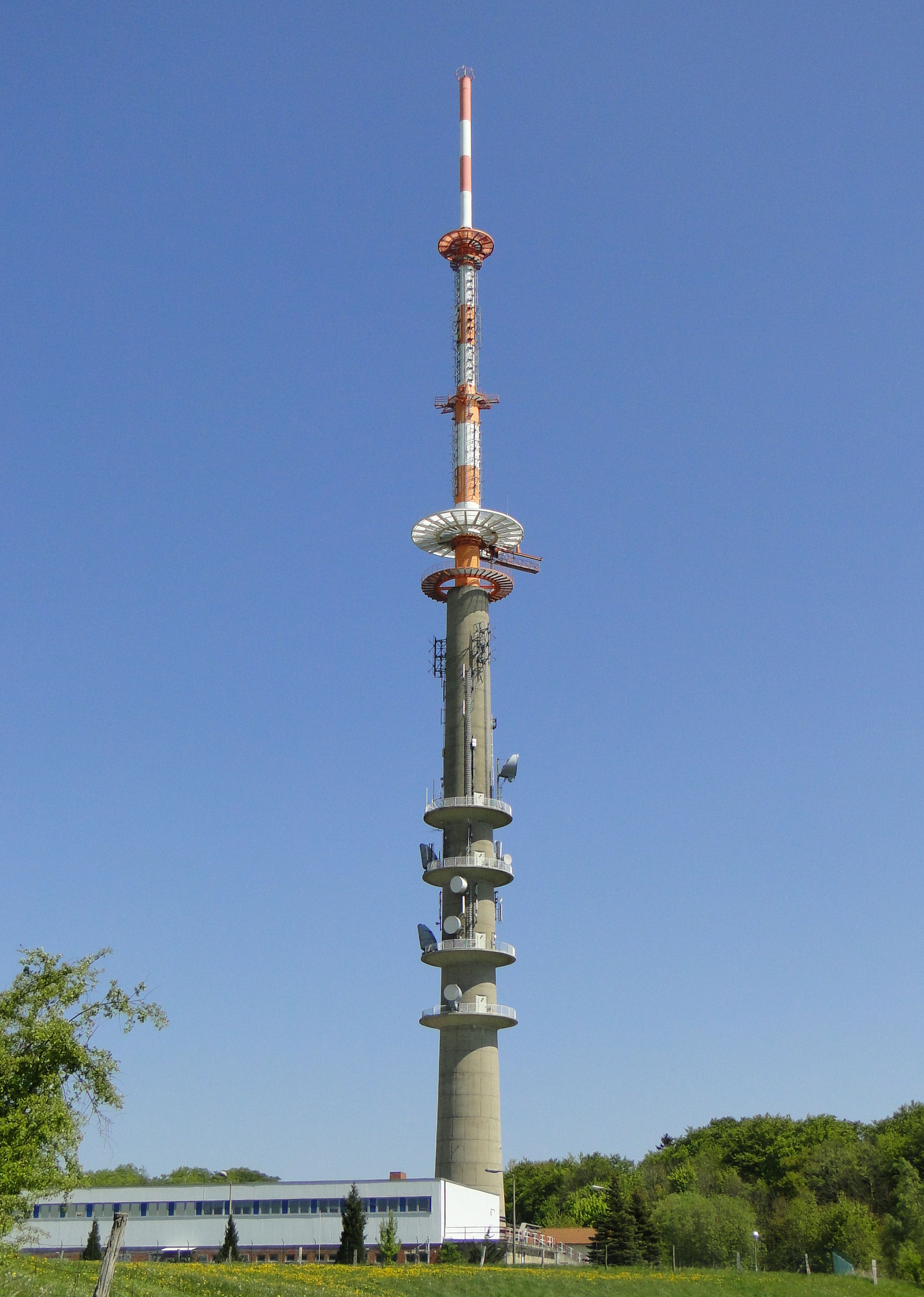 Helpterberg radio tower near Woldegk, district Mecklenburg-Strelitz, Mecklenburg-Vorpommern, Germany